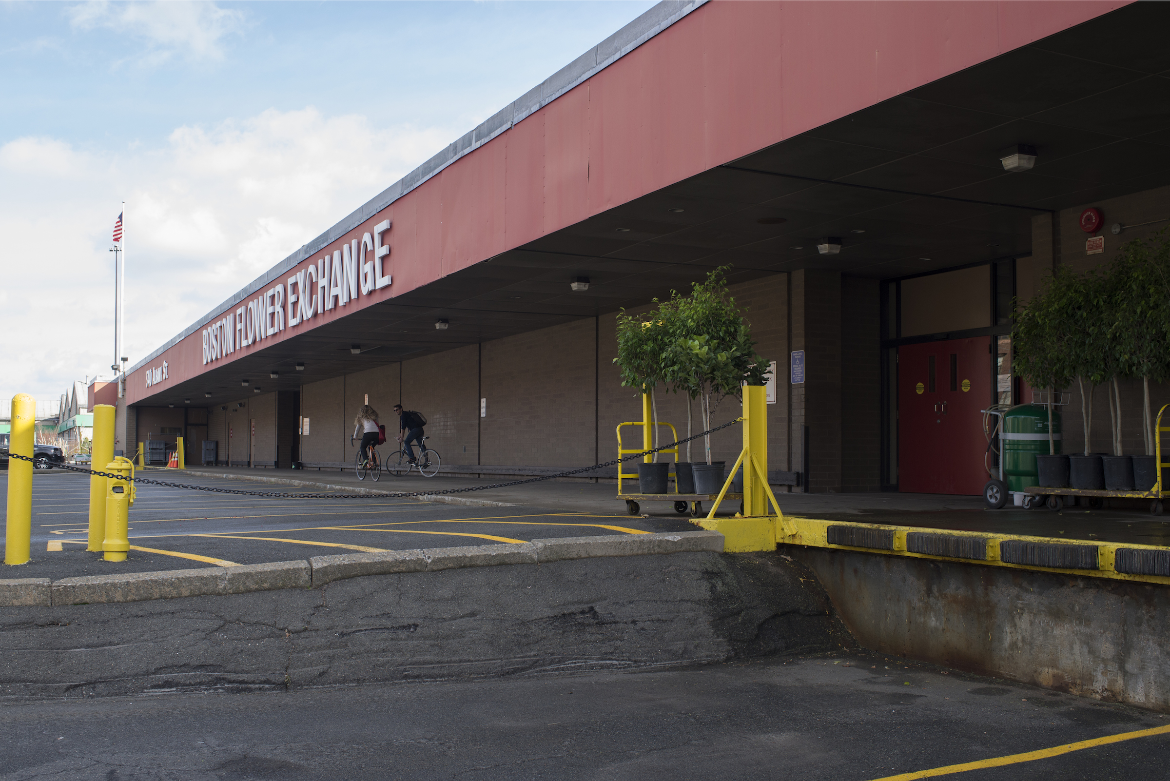 Boston Flower Exchange, November 2015